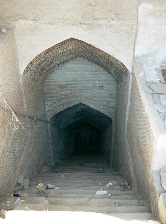 Stairs leading to a qanat (cistern), Kashan.